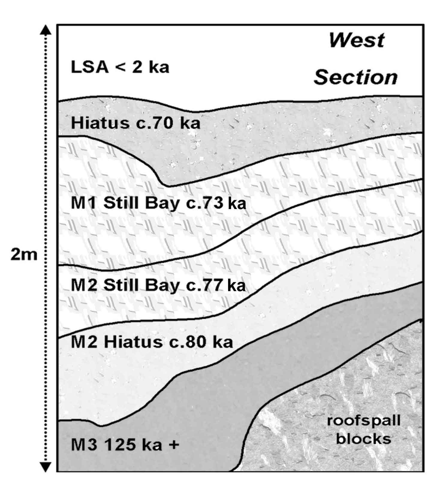 Stratigraphy and dates of the west section of Blombos Cave